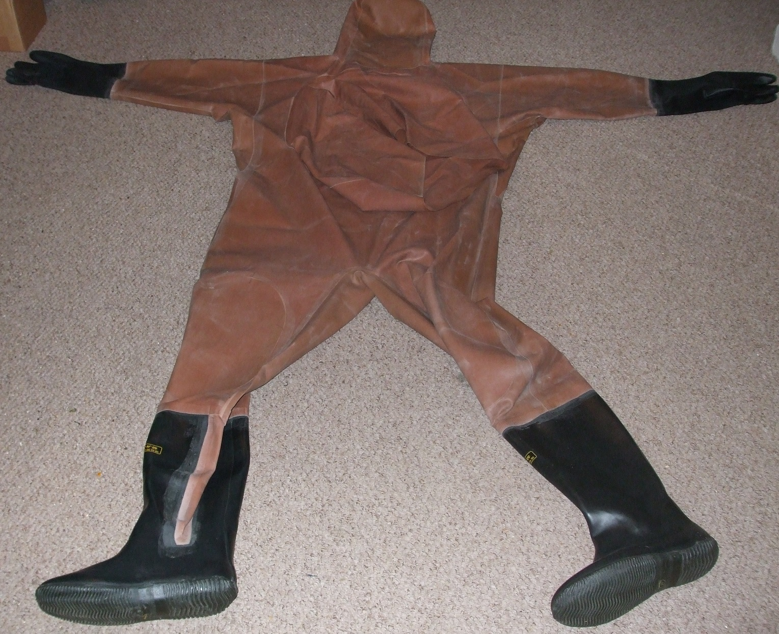 The image shows an unused Chinese-made wading suit covering the whole body and fitted with a pair of boots for the feet, a pair of gloves for the hands and a hood for the head. Before use, an aperture must be cut in the front of the hood to expose the wearer's face and allow him to see and breathe. Entry is via the suit chest aperture, which comes with excess material on the outside to be tied off afterwards for a leak-tight seal. This suit used in fishing and aquaculture in China enables the wearer to stand and walk in deeper water.